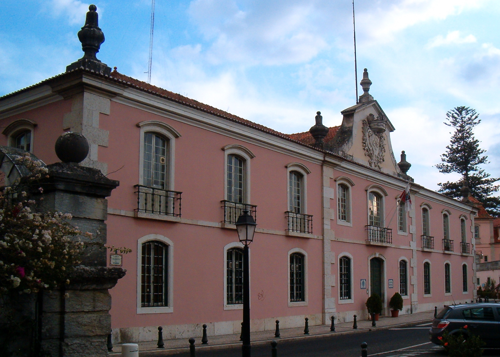 Oeiras_palacio_Marques